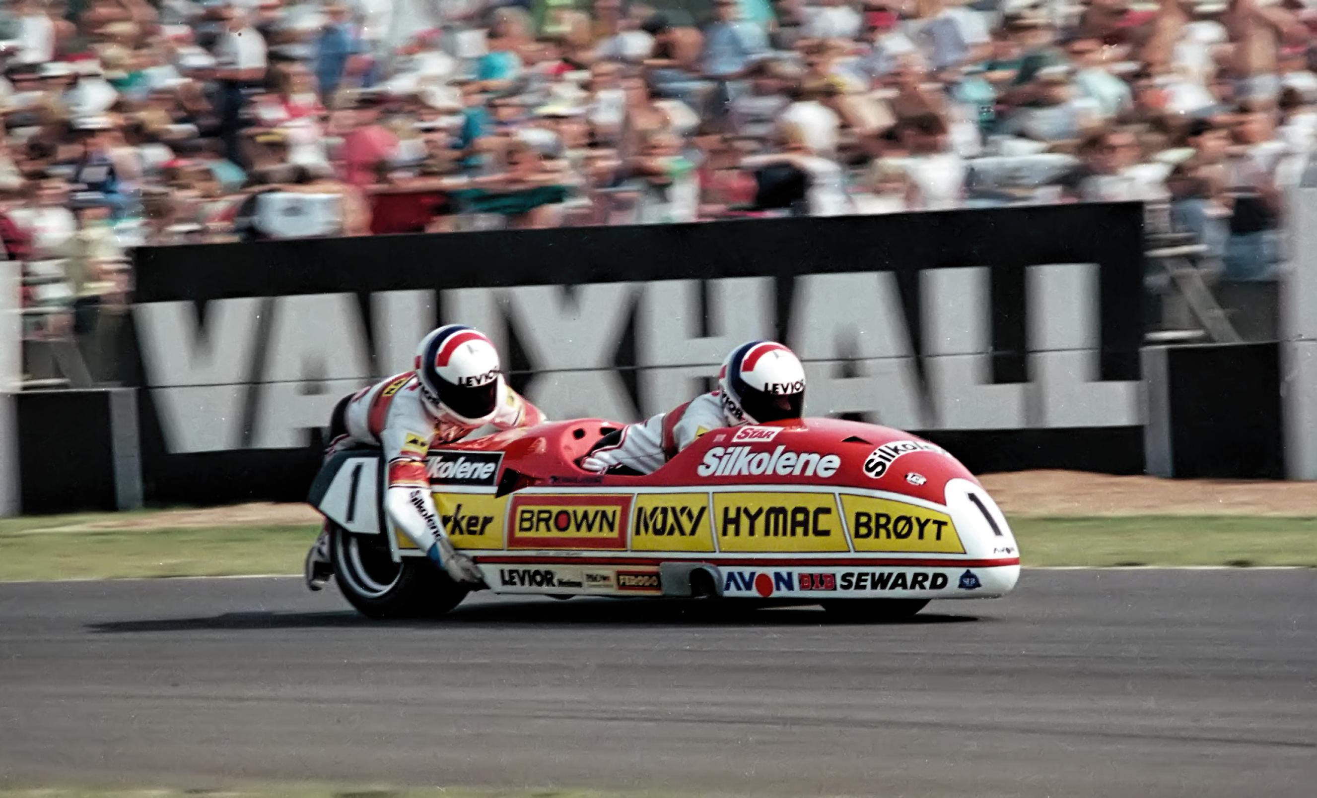 The LCR Krauser Sidecar, ridden by Steve Webster and Tony Hewitt at the 1989 British Grand Prix.